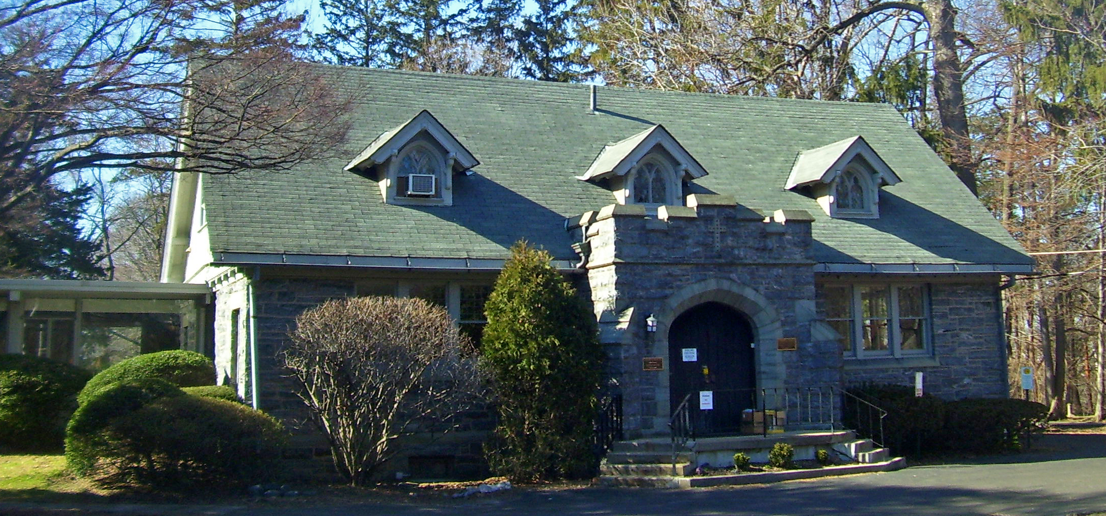 Parish house wing on Church of St. Barnabas, Irvington, NY, USA